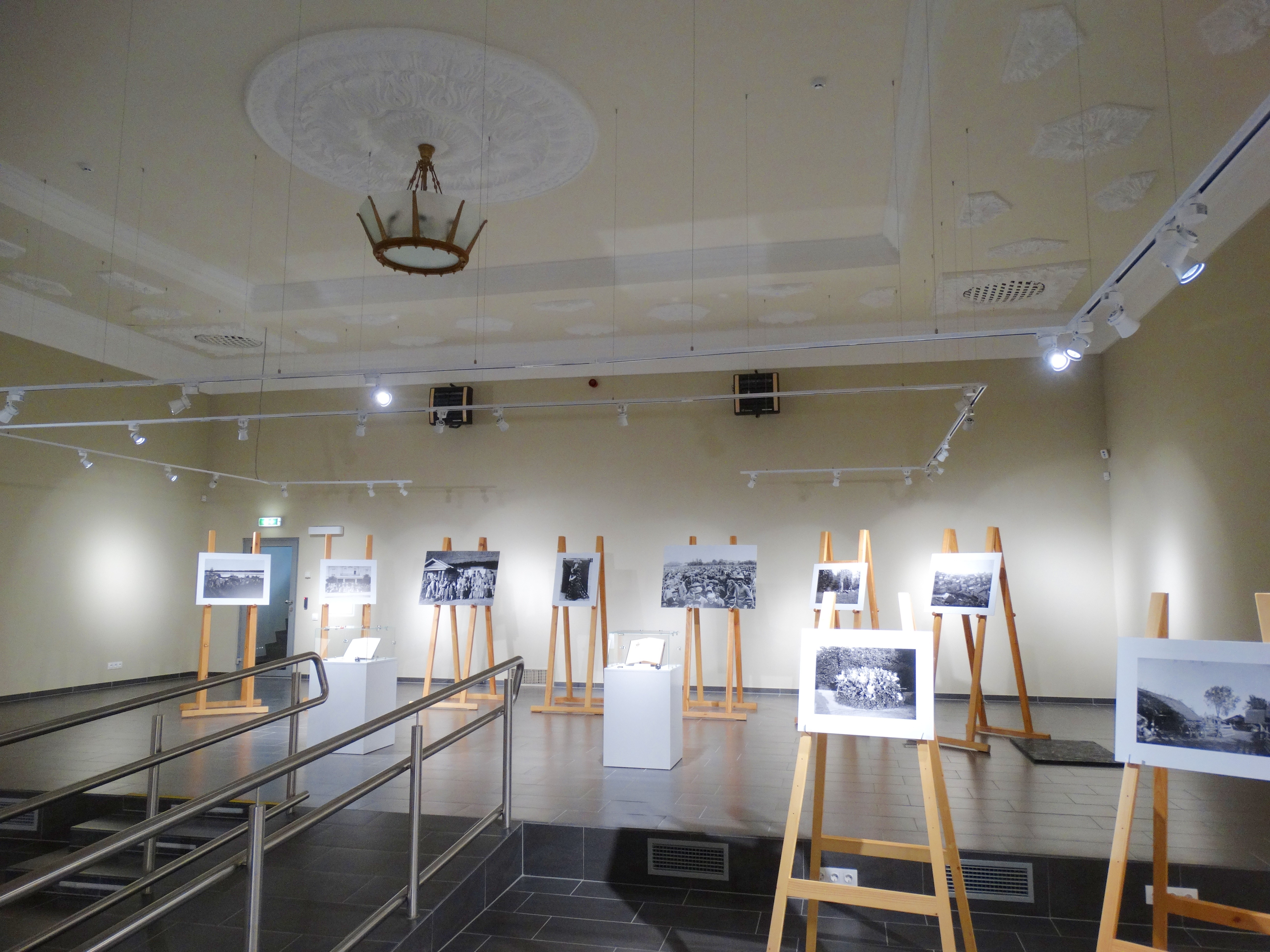 Ukmergė museum (former cinema Draugystė), Lithuania